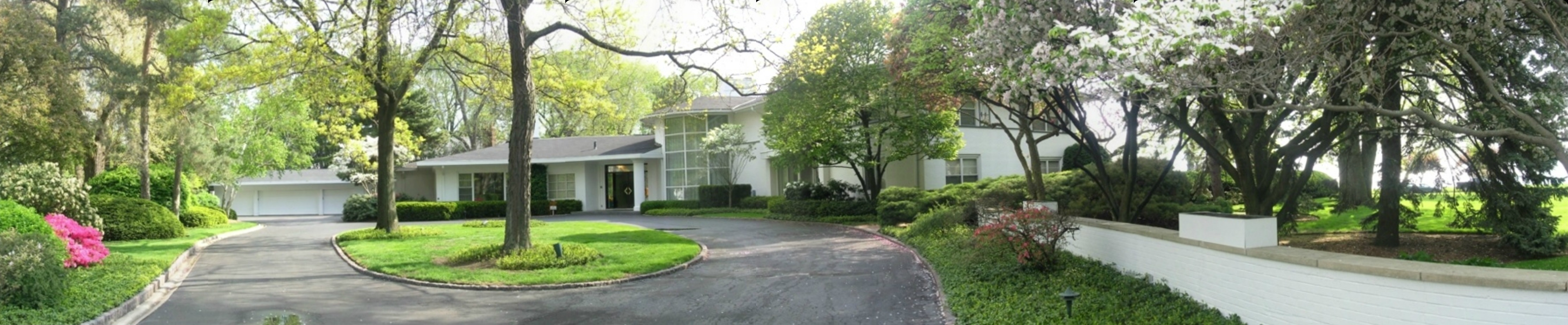 Home of Robert Pauli Scherer in Grosse Pointe Shores, Michigan, designed by Hugh T. Keyes